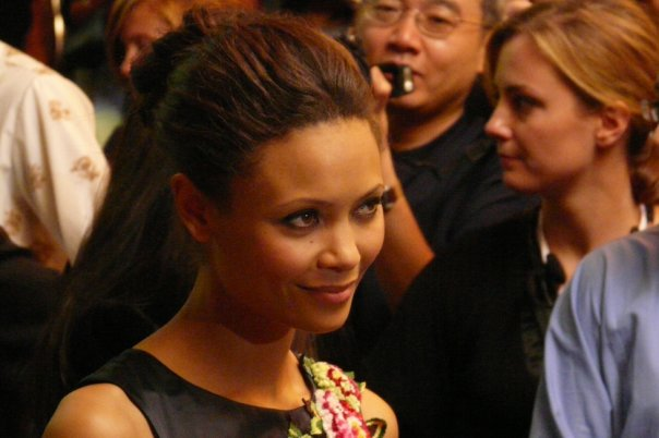 Checkout More Great photos at